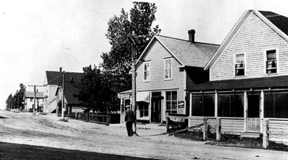 The main street in Tracadie, New Brunswick, circa 1920.